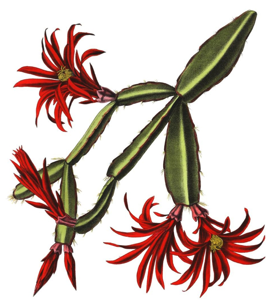 Hatiora gaertneri